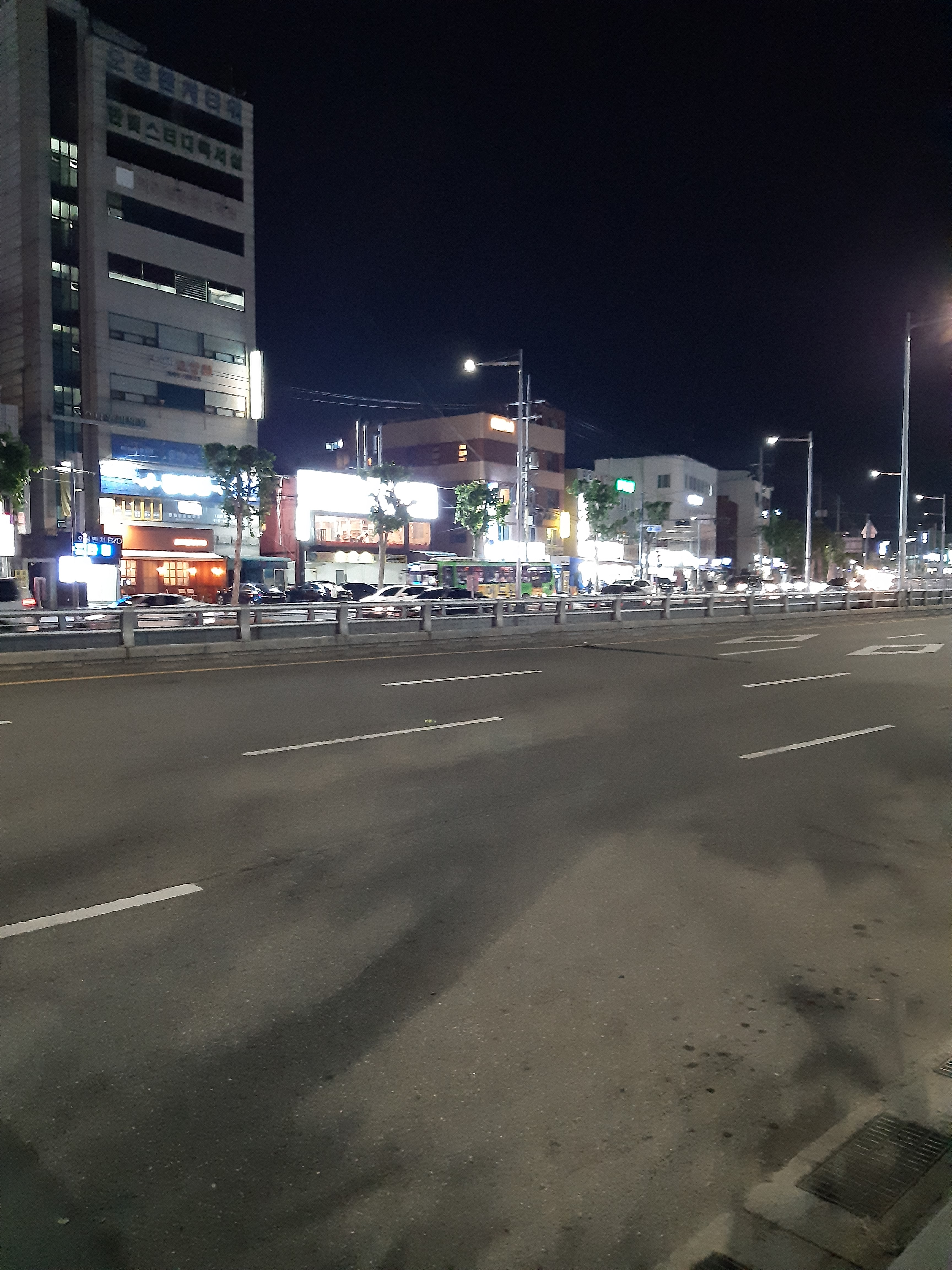 Sillim-dong, Gwanak-gu, seoul(Sillim-ro)